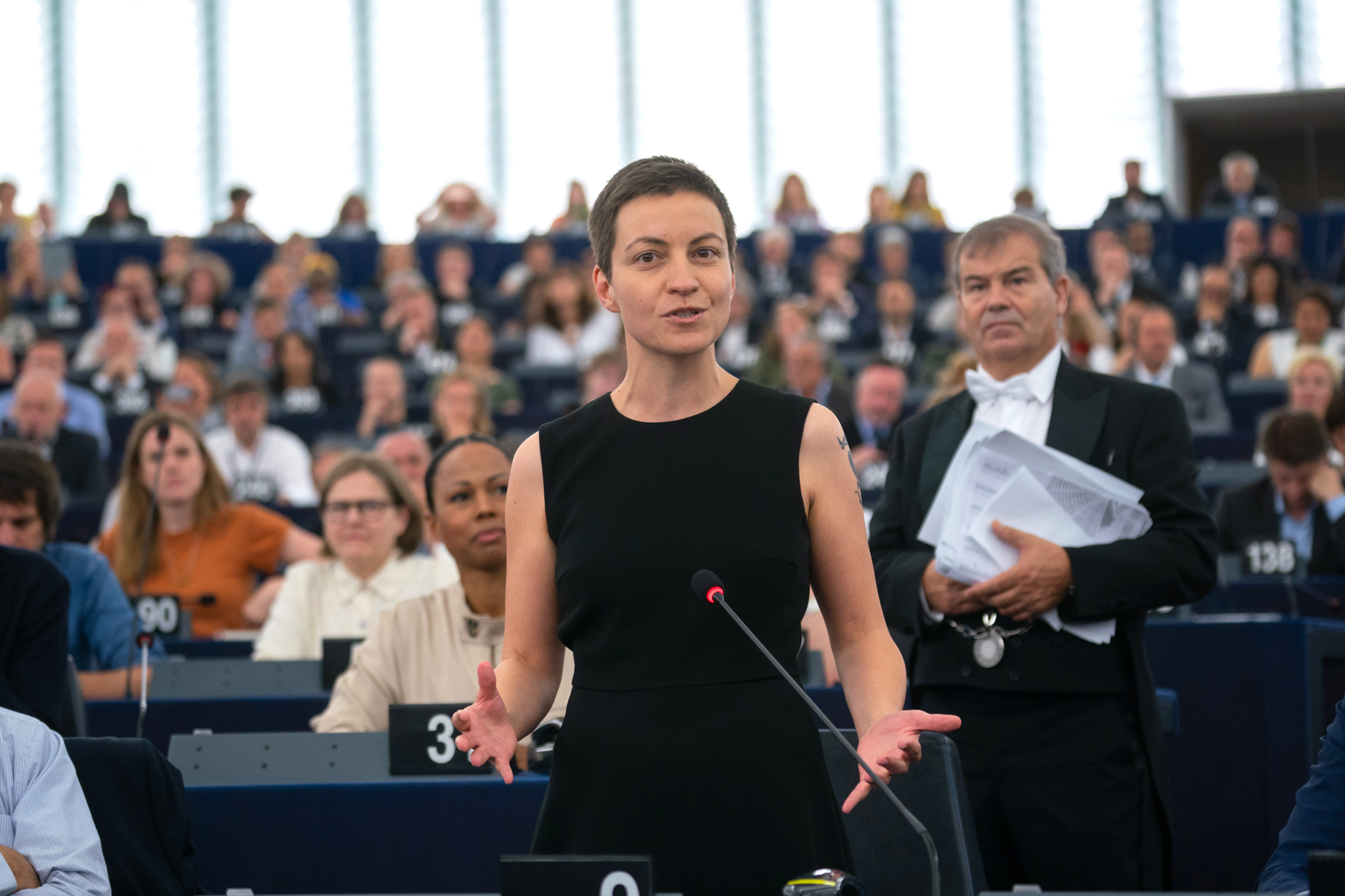 EP President candidate Ska Keller